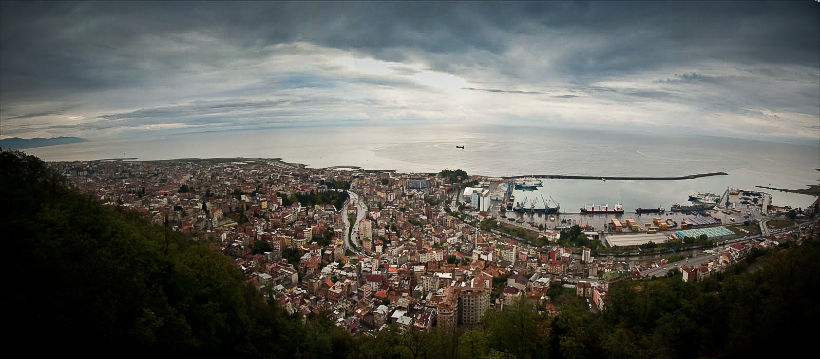 Panorama of Trabzon from Boztepe